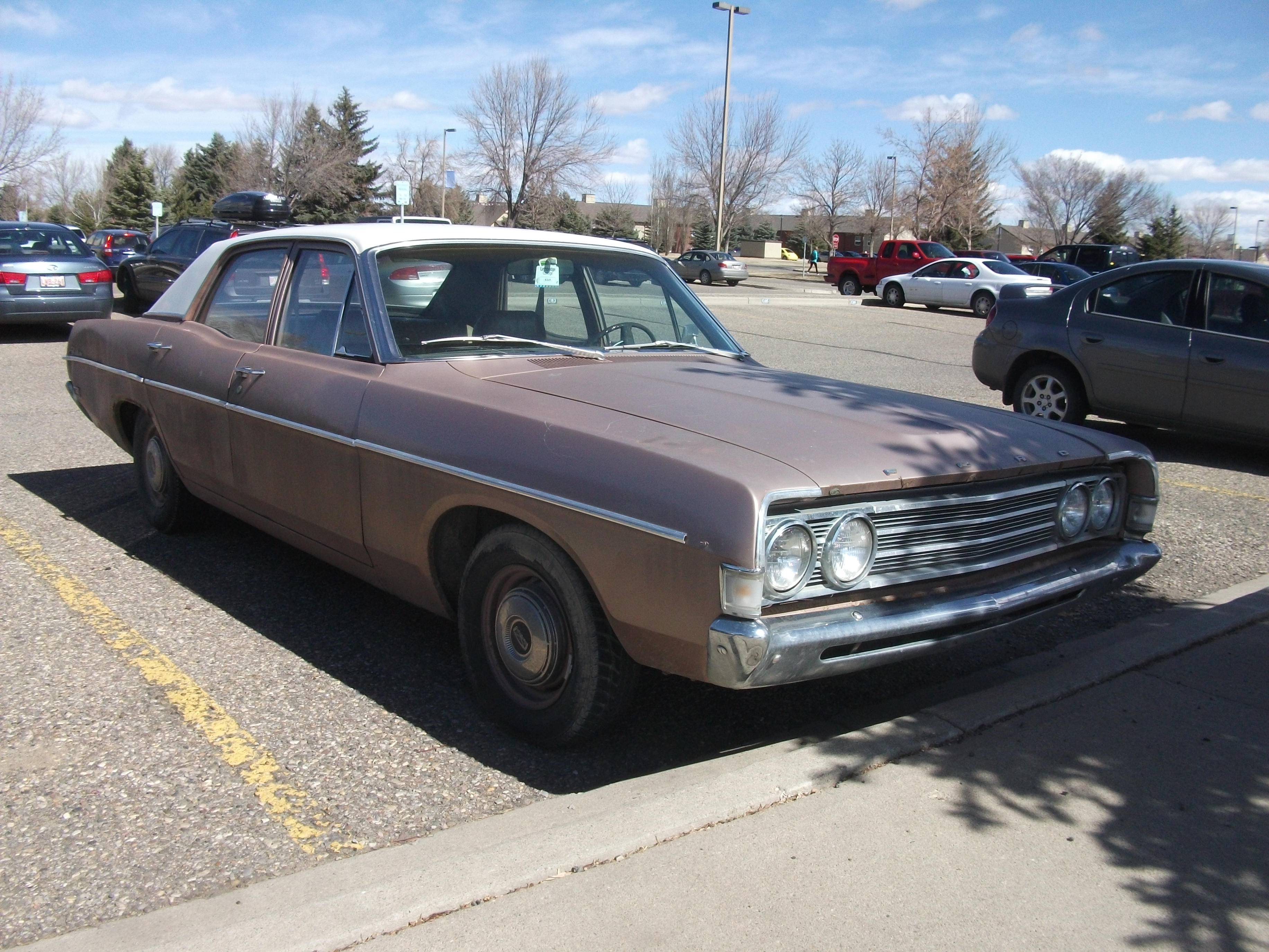 What a great classic daily driver this Ford Fairlane sedan would make.